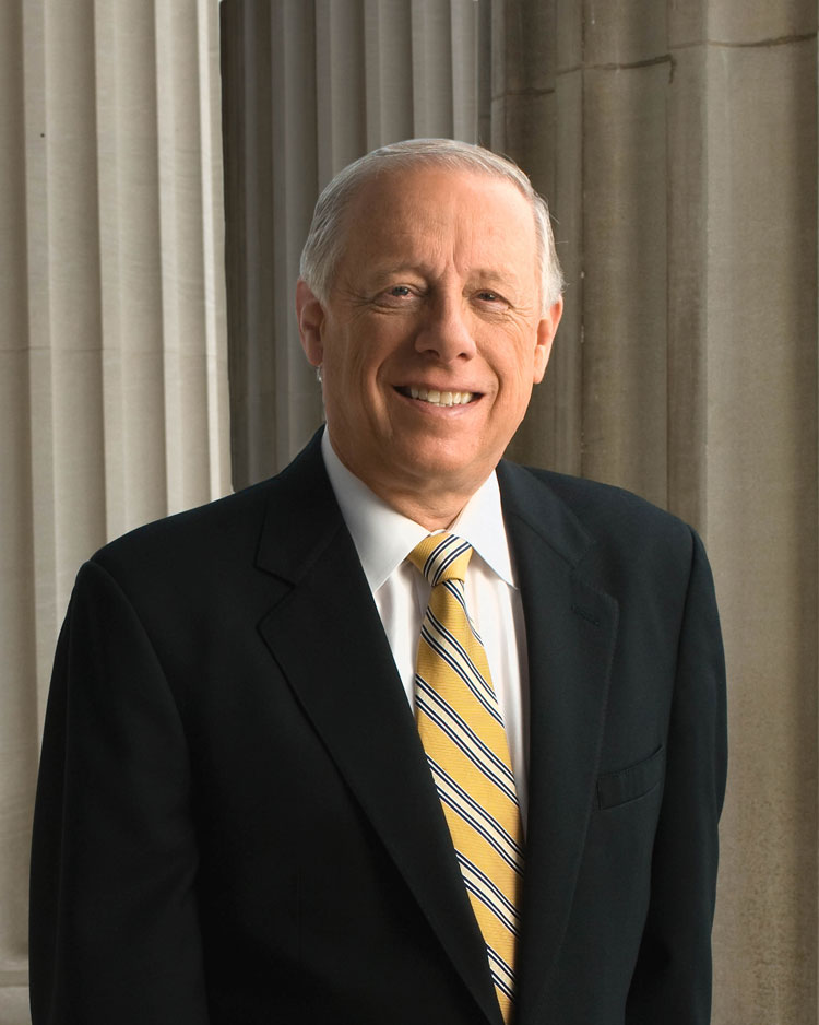 This is the official Tennessee state photograph of Phil Bredesen. The original jpg can be found at